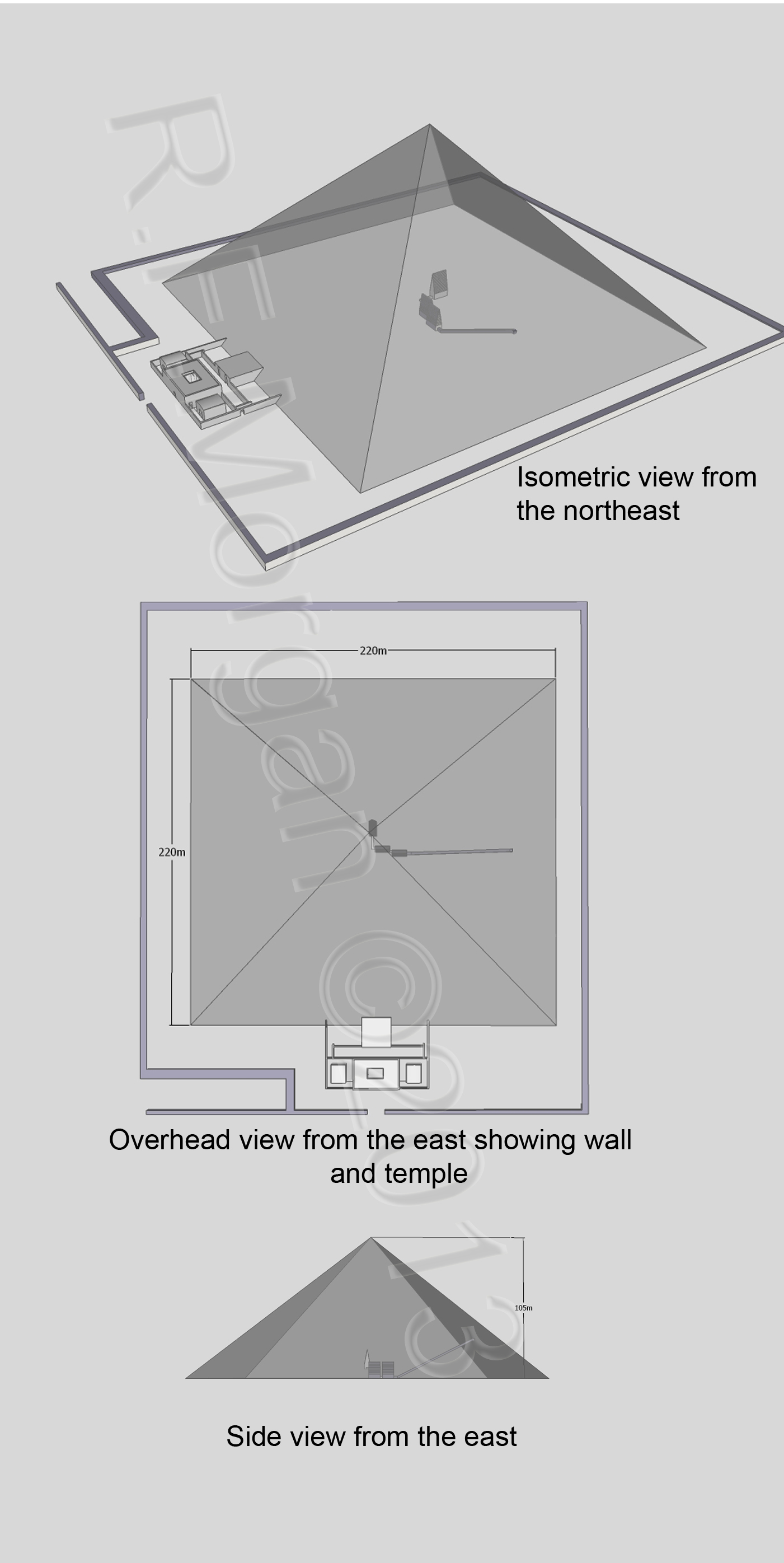 Isometric, plan and elevation images of the Red Pyramid